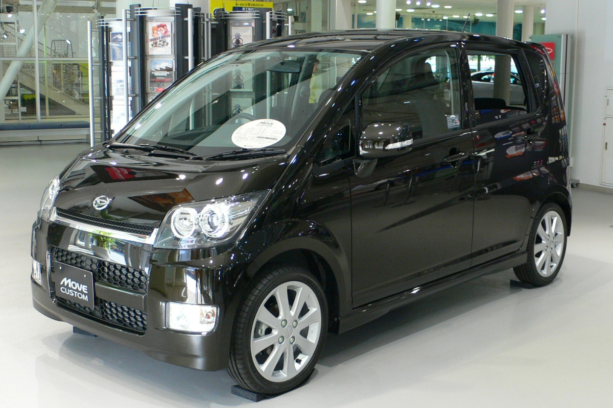 Daihatsu_Move-Custom(2006) photographed in MEGAWEB.